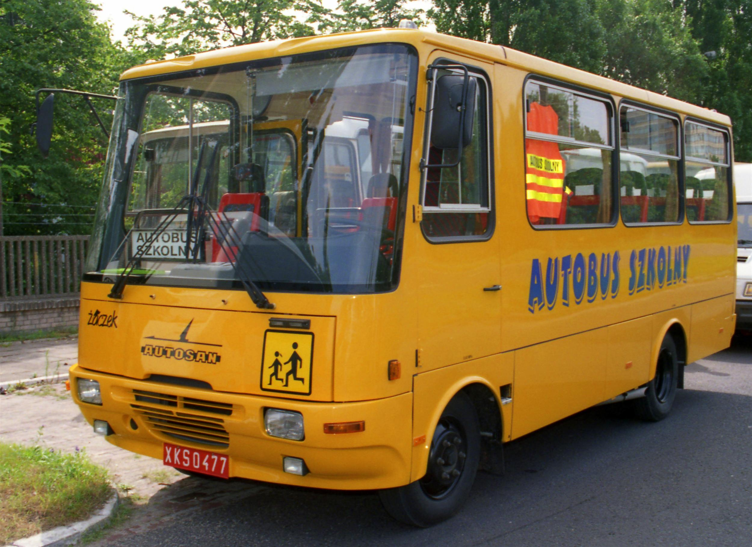 Autosan H6-10 Żaczek school bus in Poland. Built 1999.